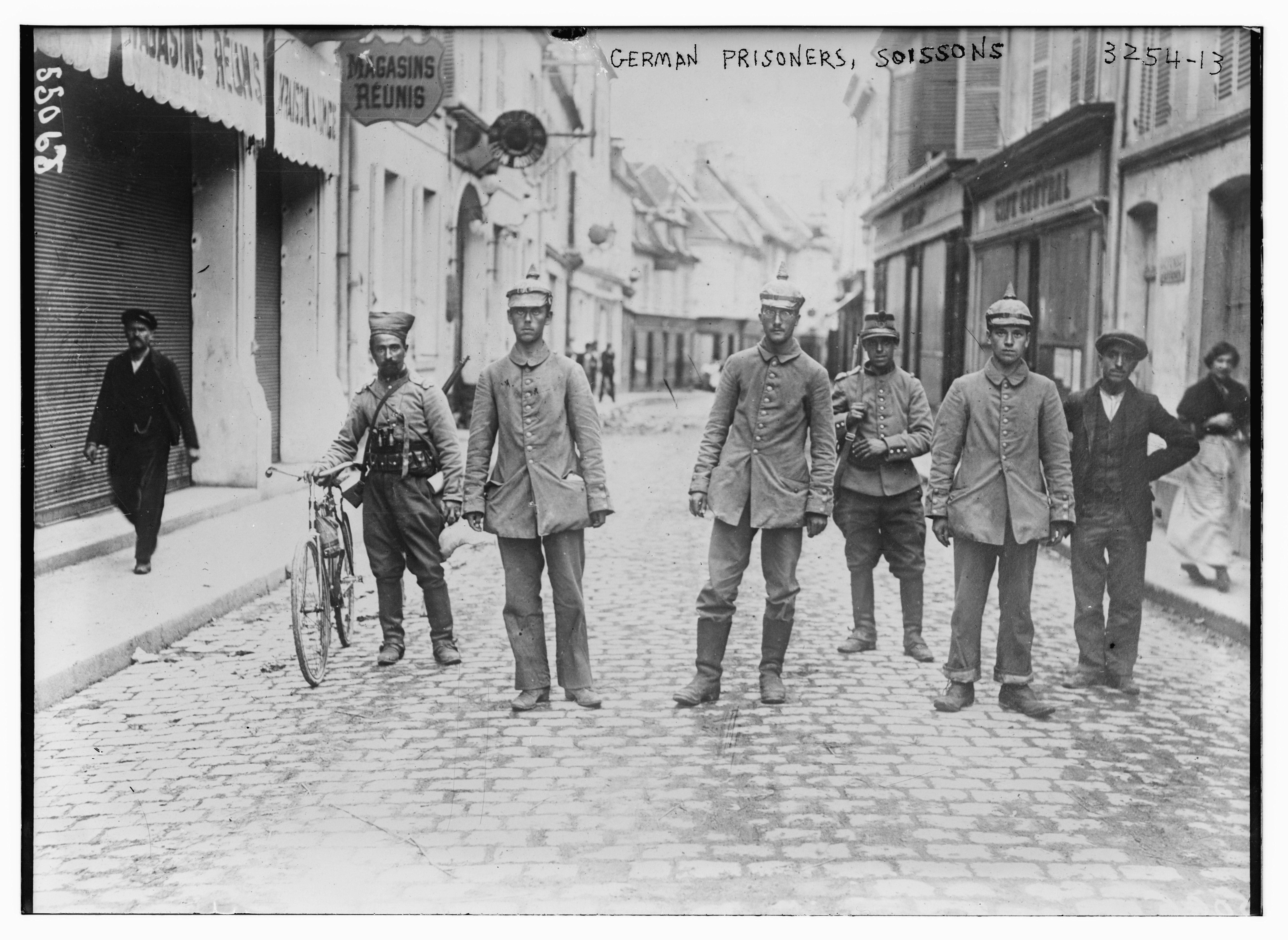 Title: German prisoners -- Soissons Abstract/medium: 1 negative : glass ; 5 x 7 in. or smaller.